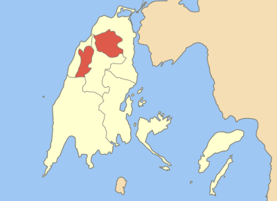 Locator map of Sfakiotes municipality (Δήμος Σφακιωτών) in Lefkada prefecture (Νομός Λευκάδας) in Greece.